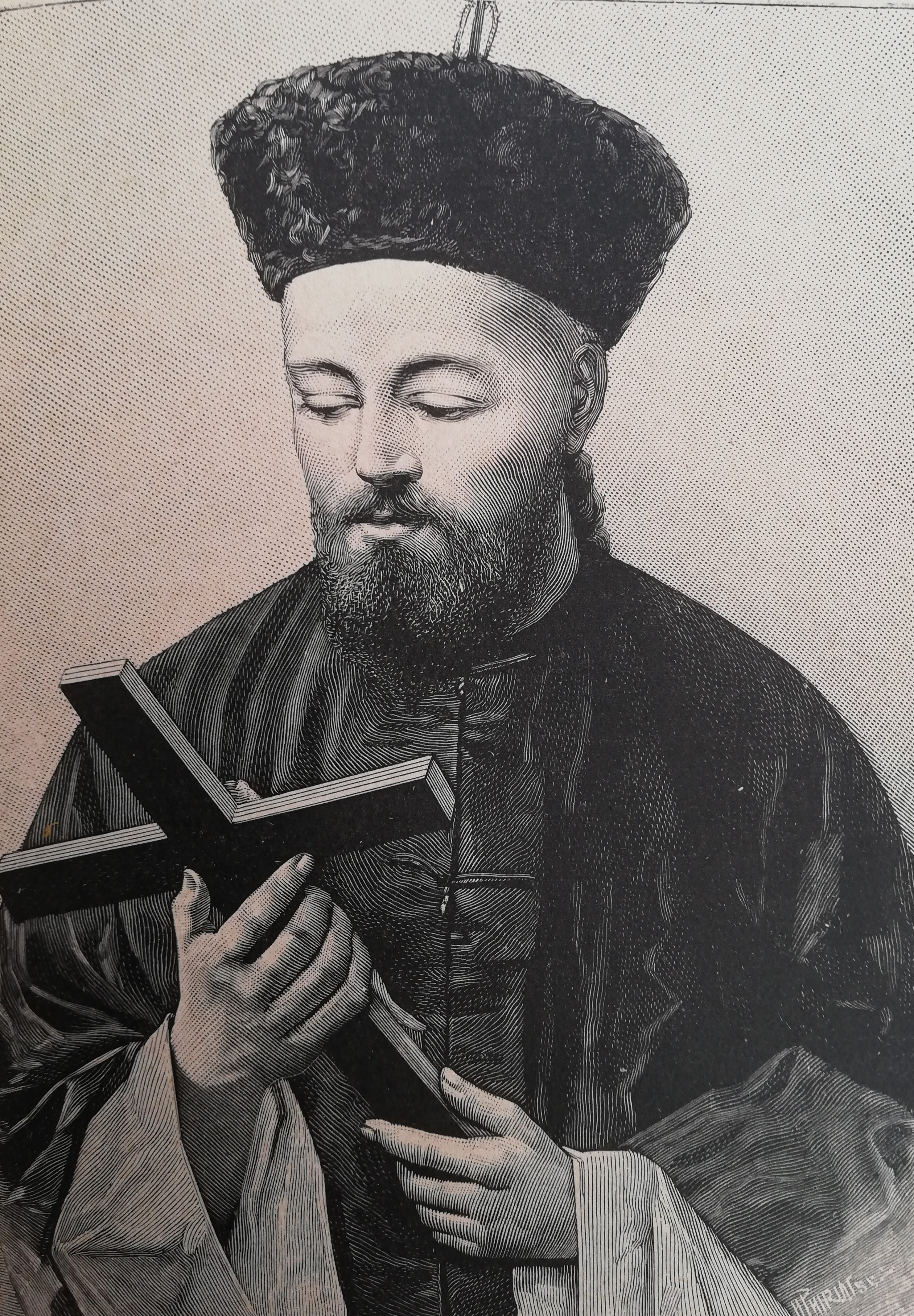 Saint Jean-Gabriel Perboyre, Catholic Missionary in China, 1889 engraving